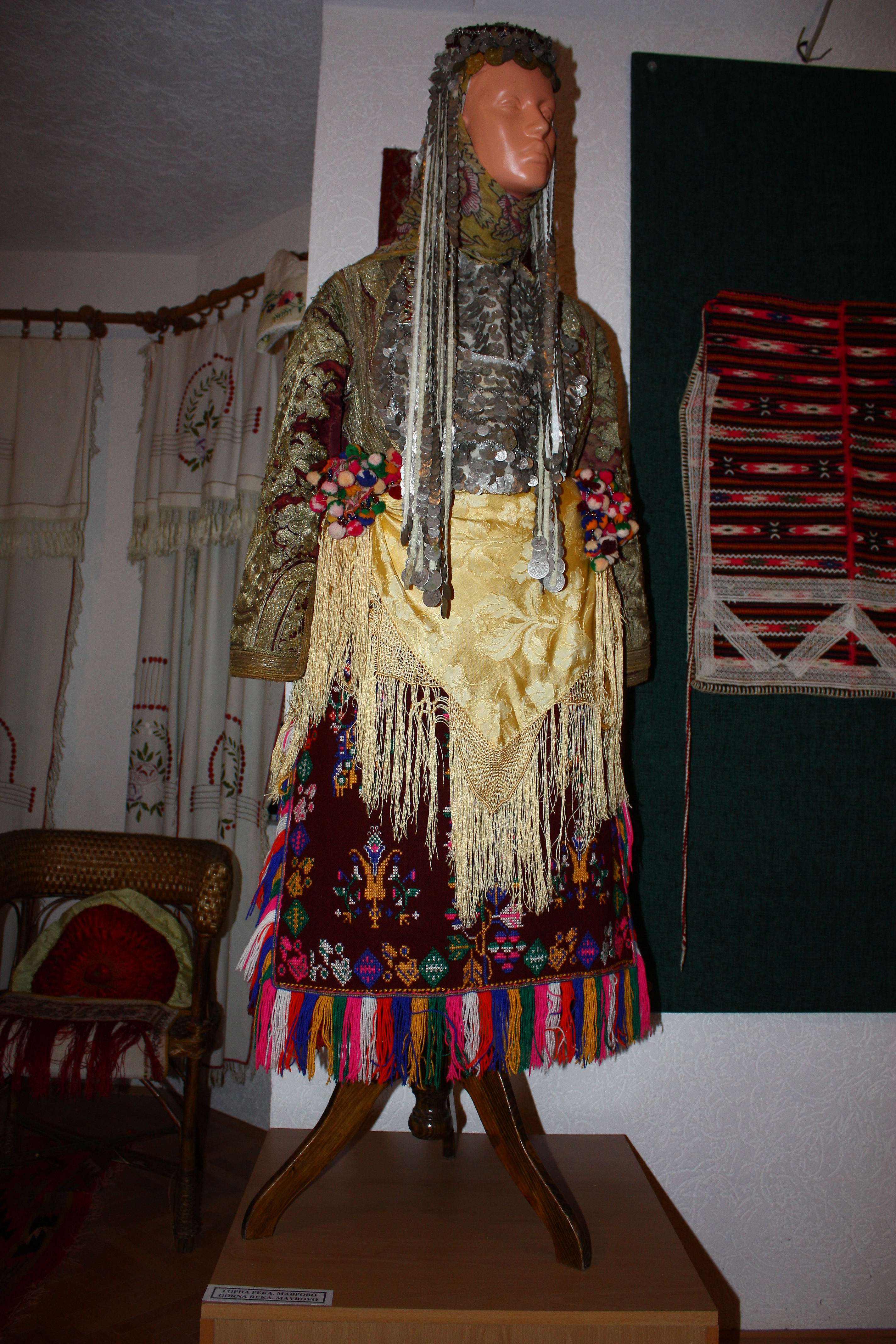 Ethnological Museum in Podmočani, Macedonia